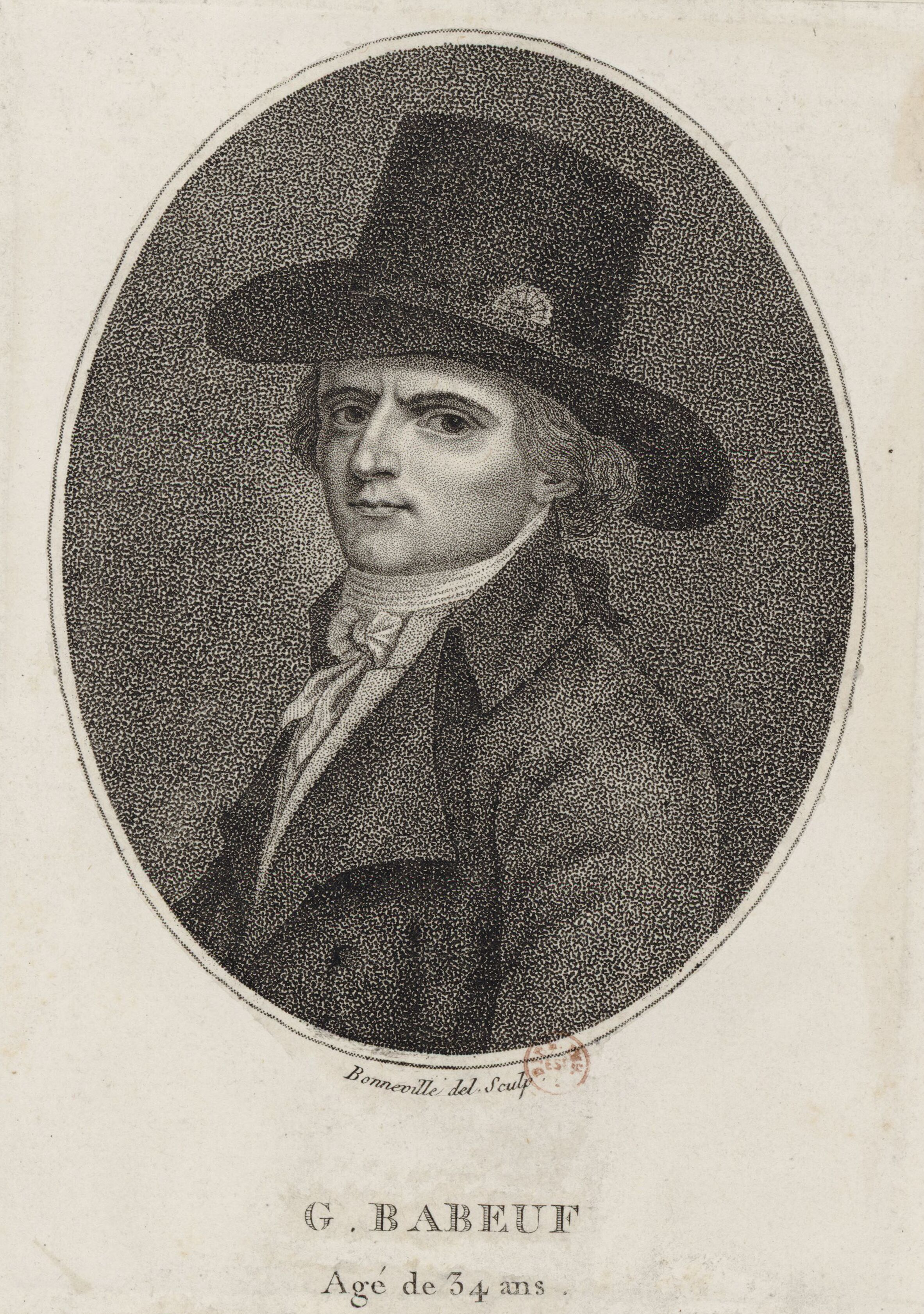 François-Noël Babeuf (1760–1797) was a French political agitator and journalist.